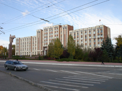 Building of the Government of Transnistria. In front of it there is a statue of Lenin. (If you want to certify that:[1])